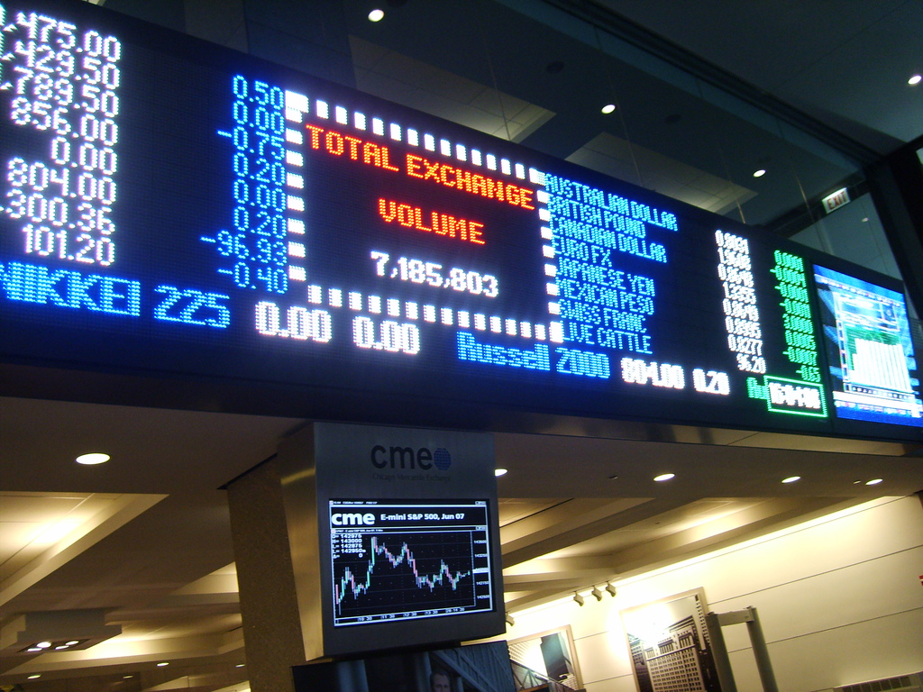 Chicago Mercantile Exchange